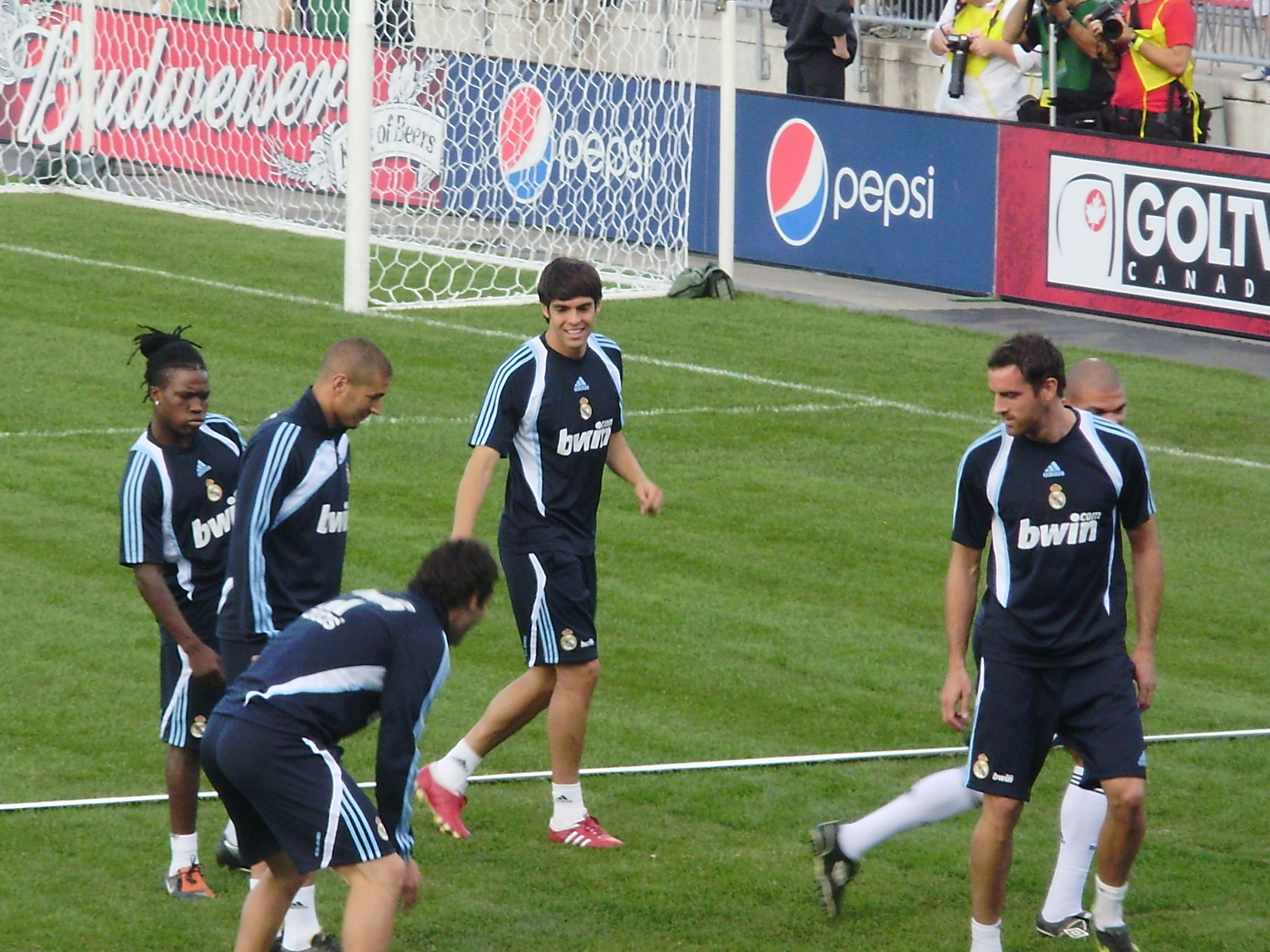 Real Madrid in Toronto, practice